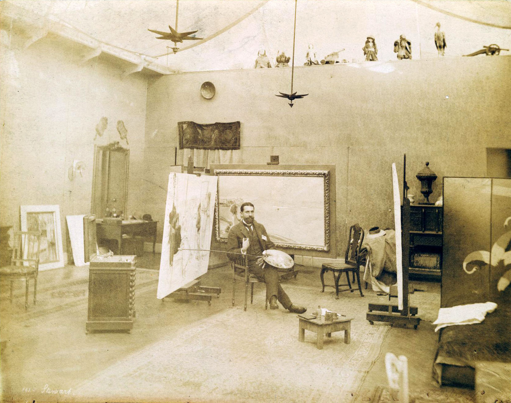 Julius LeBlanc Stewart in his Paris studio